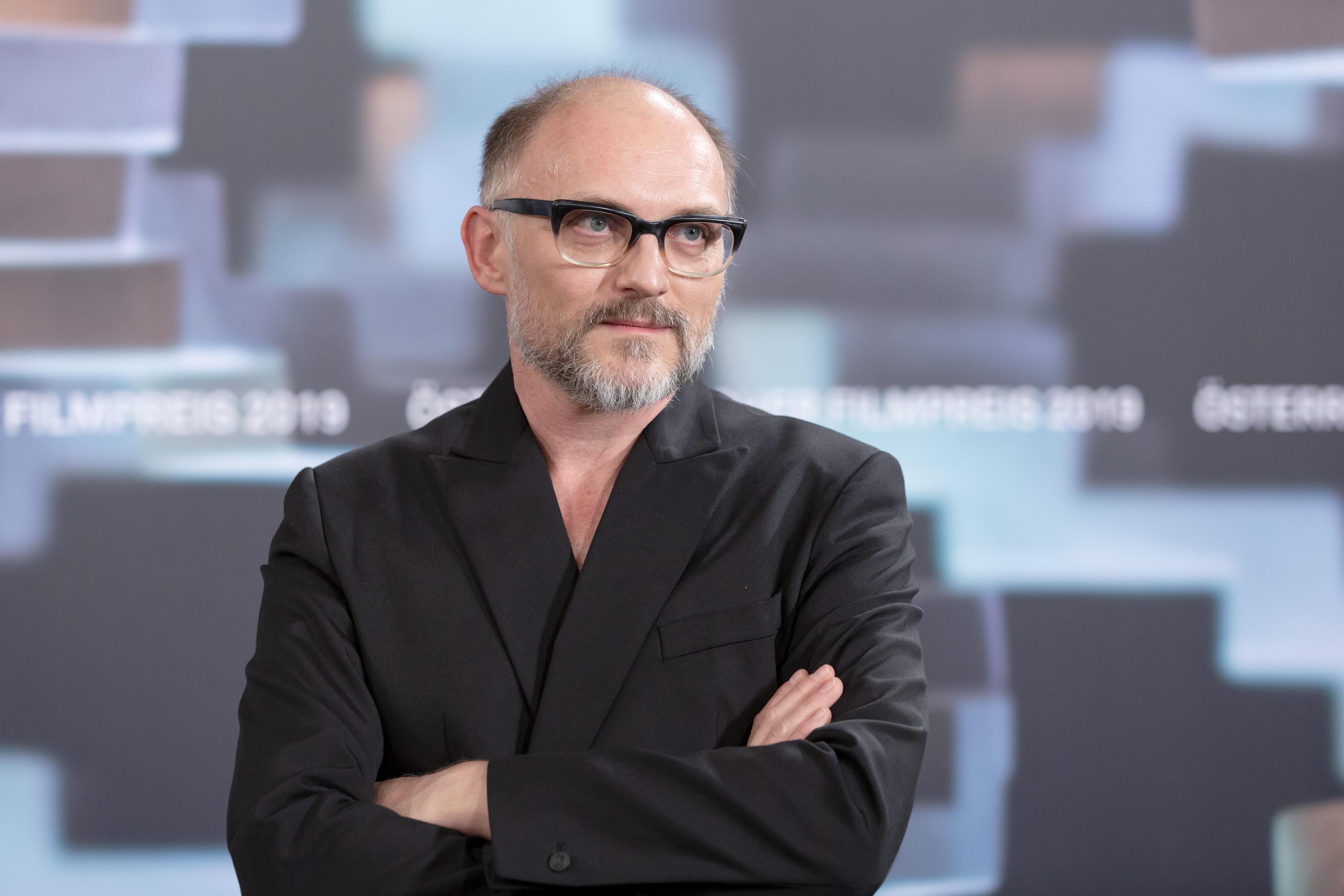 Markus Schleinzer (writer and director "Angelo"), photo call at the Austrian Film Awards 2019 (Rathaus, Vienna,Austria).